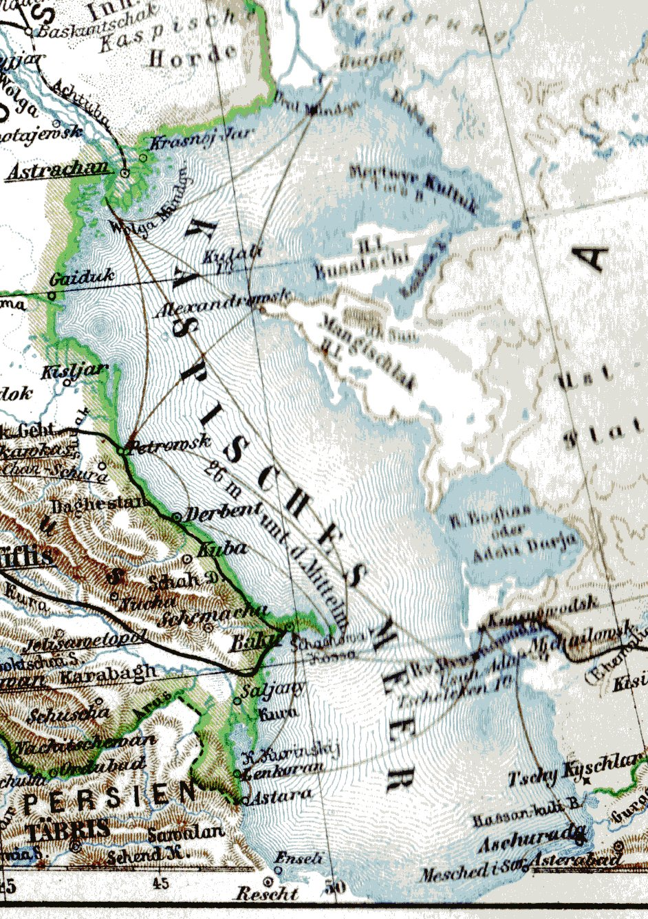 Caspian Sea 1907